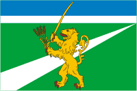 Zassovskoe (Krasnodar krai), flag